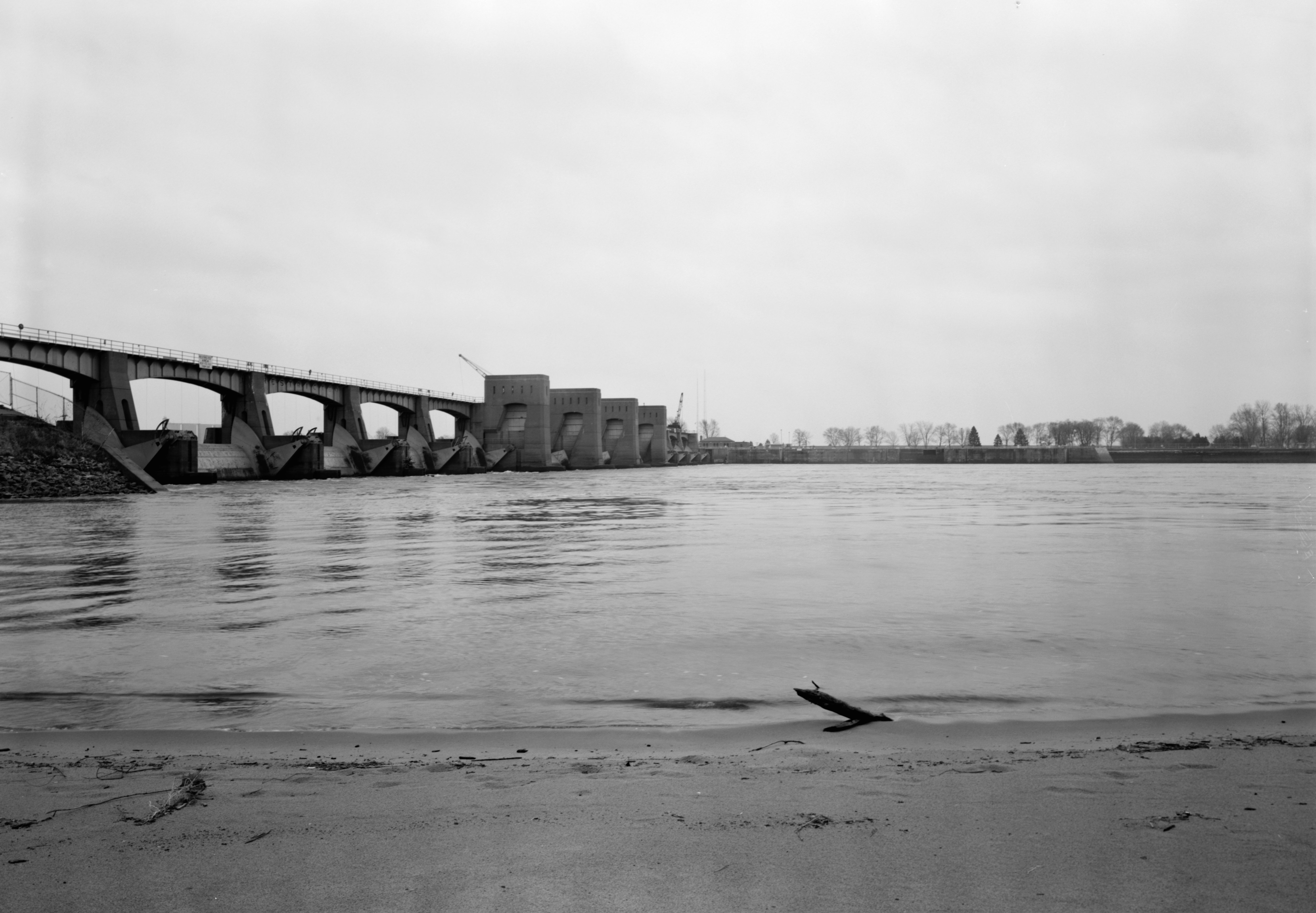 Mississippi River Lock and Dam number 21, near Quincy Illinois - general view of dam, downstream side, looking from toe of dike.